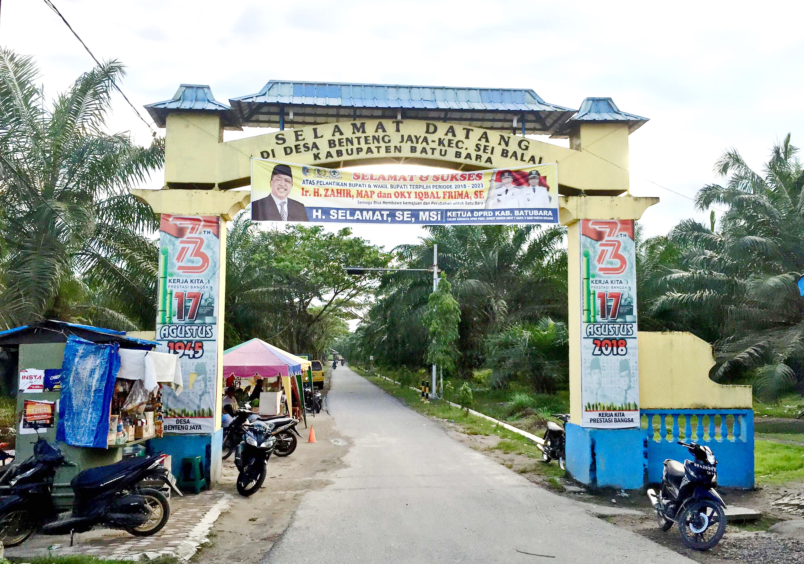 welcome gate to Benteng Jaya, Sei Balai, Batu Bara